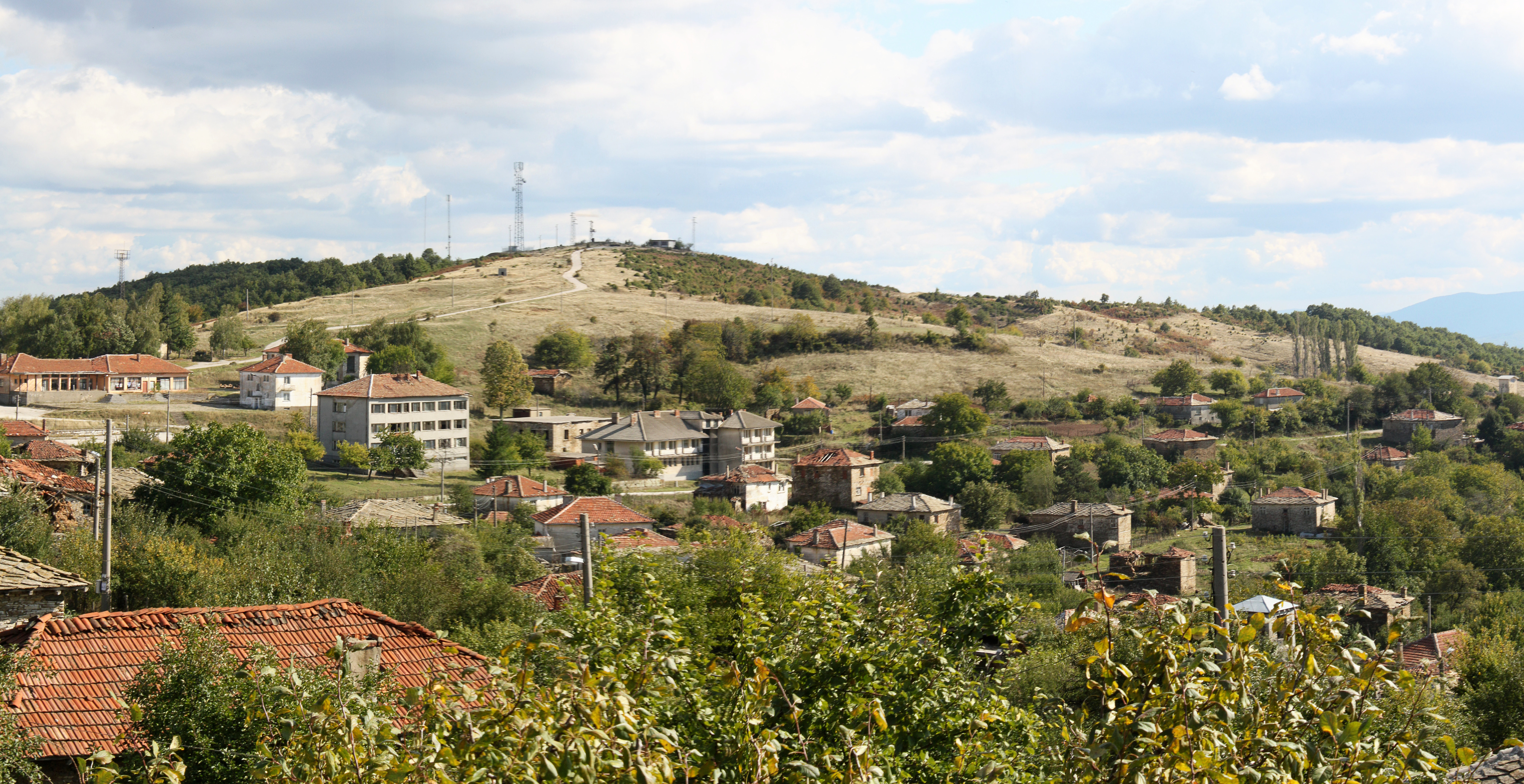 Popsko, a village in the Rhodope Mountains, Bulgaria